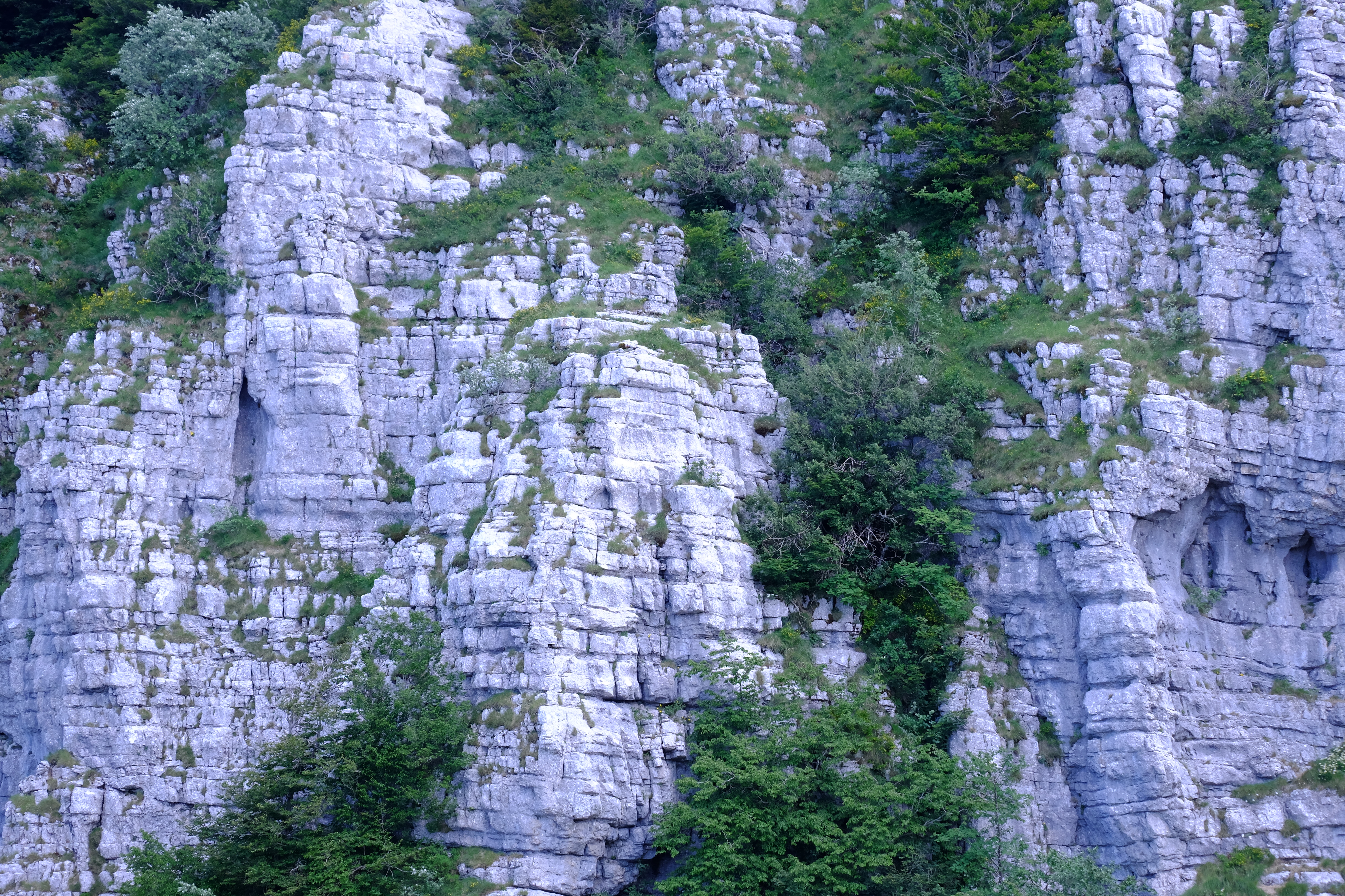 The rocks of the Alburni Mountains